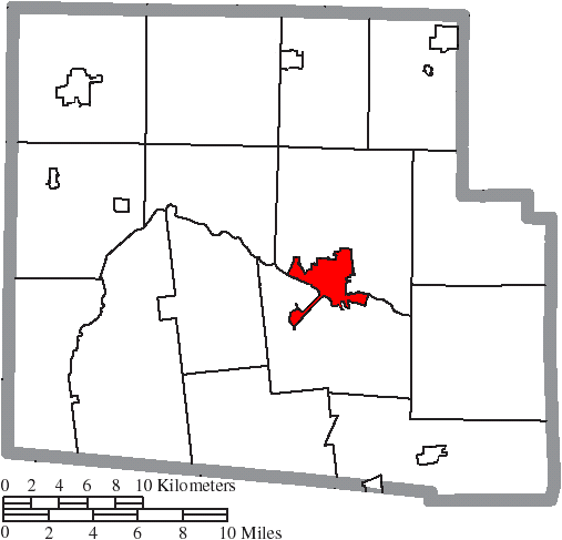 Map of the municipal and township boundaries of Hardin County, Ohio, United States, as of the 2000 census, with the location of the city of Kenton highlighted. Township borders are shown only in unincorporated areas in order to differentiate incorporated and unincorporated areas more clearly.